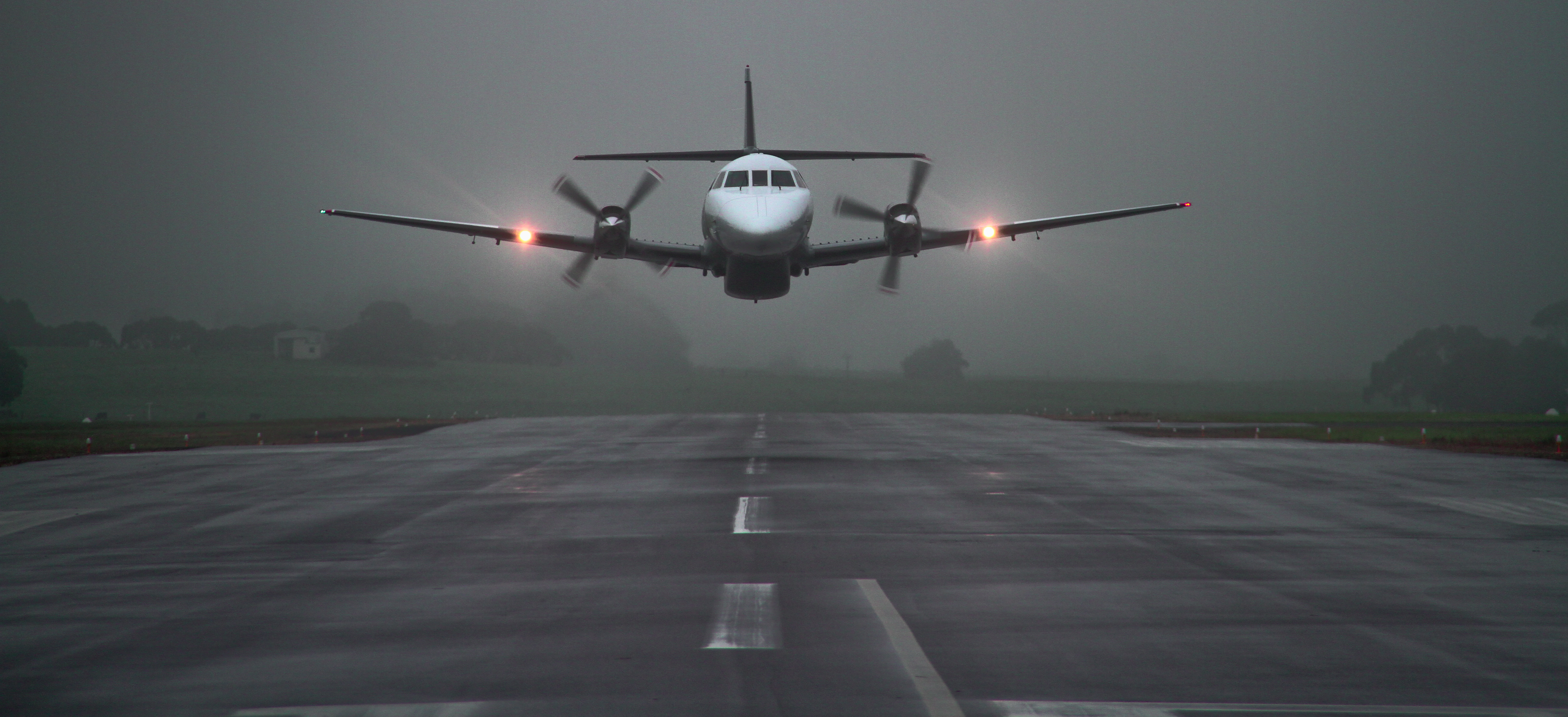 Jetstream J32 of De Bruin Air takes off at Mount Gambier Airport